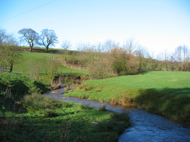 Iscoyd Brook View north along Iscoyd Brook from bridge at Iscoyd Wood, near Foxholes Farm. The brook is swollen after the unusually heavy snowfall of February 2007